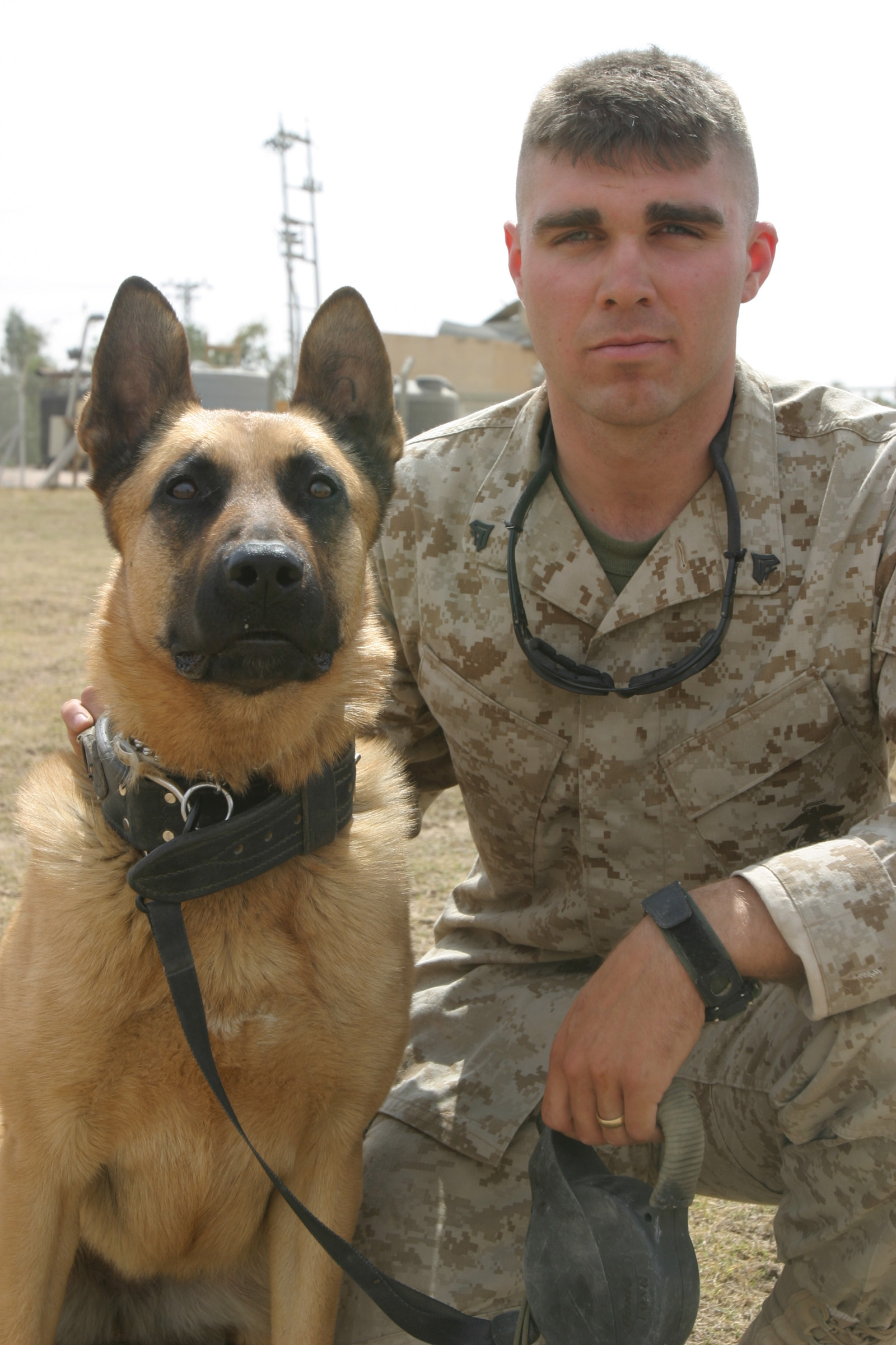 As a dog handler with 2nd Military Police Battalion, II Marine Expeditionary Force, Headquarters Group, II MEF (FWD), Cpl. Matthew P. Cobb enjoys his job. The Topeka, Kan. native works with his dog, Laika, daily and goes on several operations a week with her. They have formed a close relationship, as Marines often do.